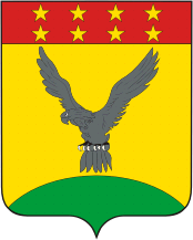 Bratskoe (Krasnodar krai), coat of arms